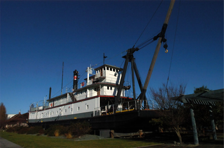 By Nicholas SL Smith in Anacortes, Washington. Snagboat W. T. Preston in dry berth by Cap Sante Marina, Anacortes, Washington. Operated by the City of Anacortes. The boat retains its status as a Seattle city landmark, even though it is no longer in Seattle.